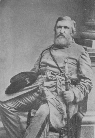 A photograph of John Hugh Means; Published in Thomas Means and Some of His Descendants, The South Carolina Historical and Genealogical Magazine, Vol. 7, No. 4 (Oct., 1906), pp. 204-216